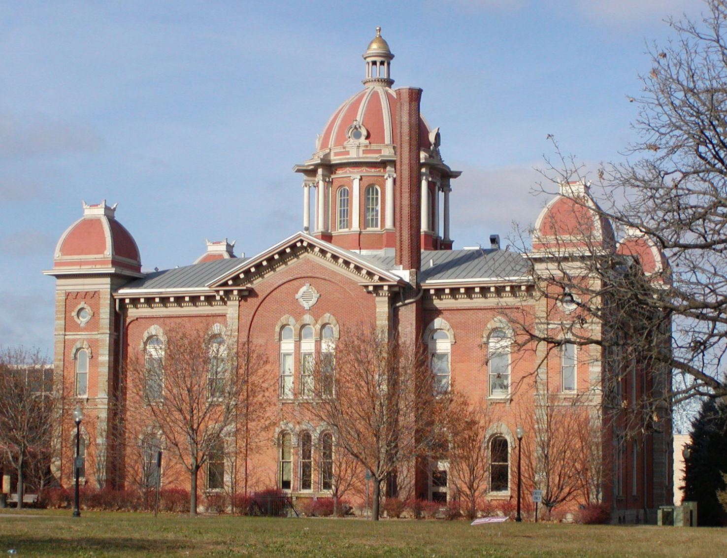 taken by William Wesen